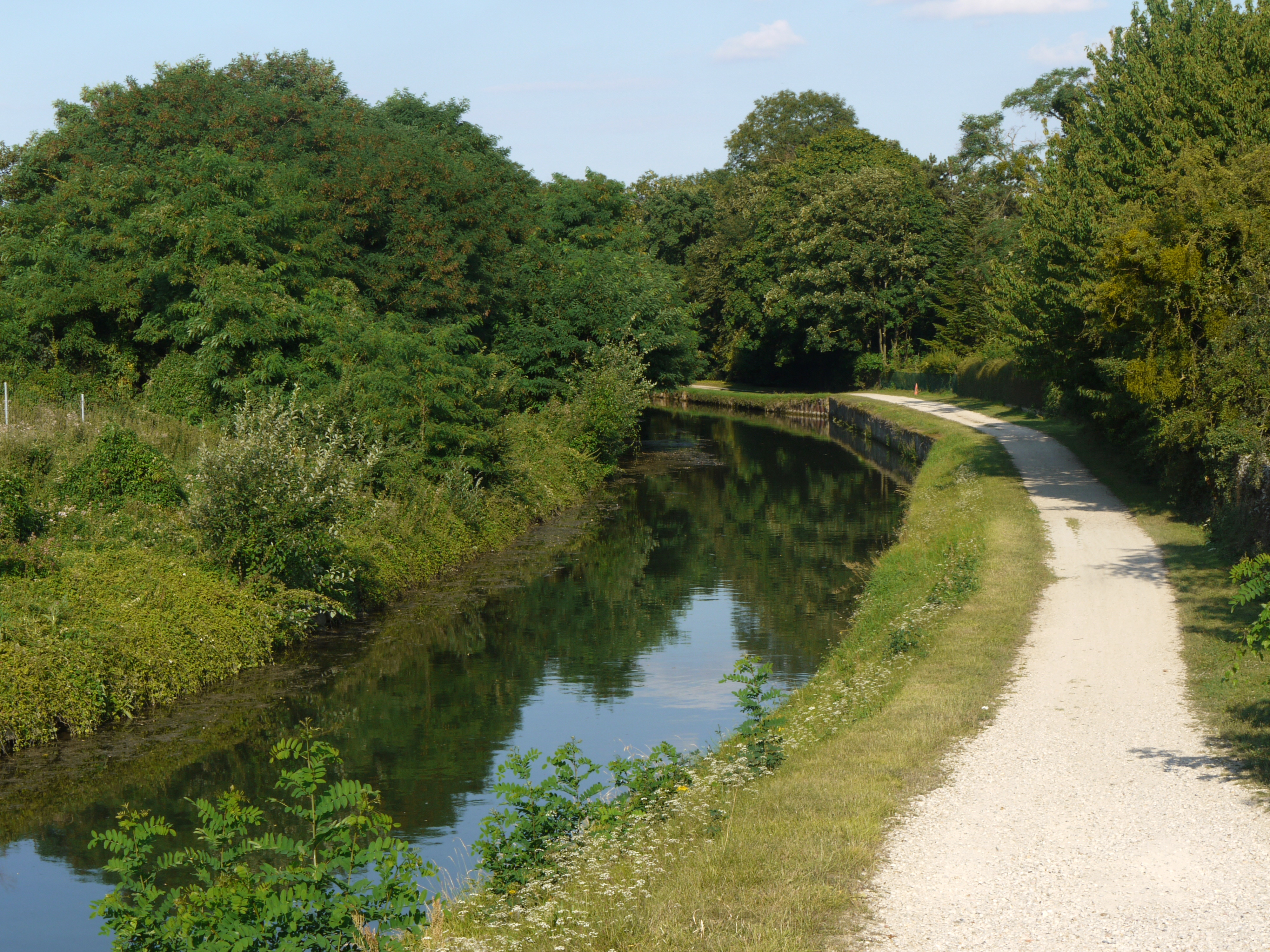 Canal de l'Ourcq near Isles les Villenoy, Seine et Marne, Ile de France, France